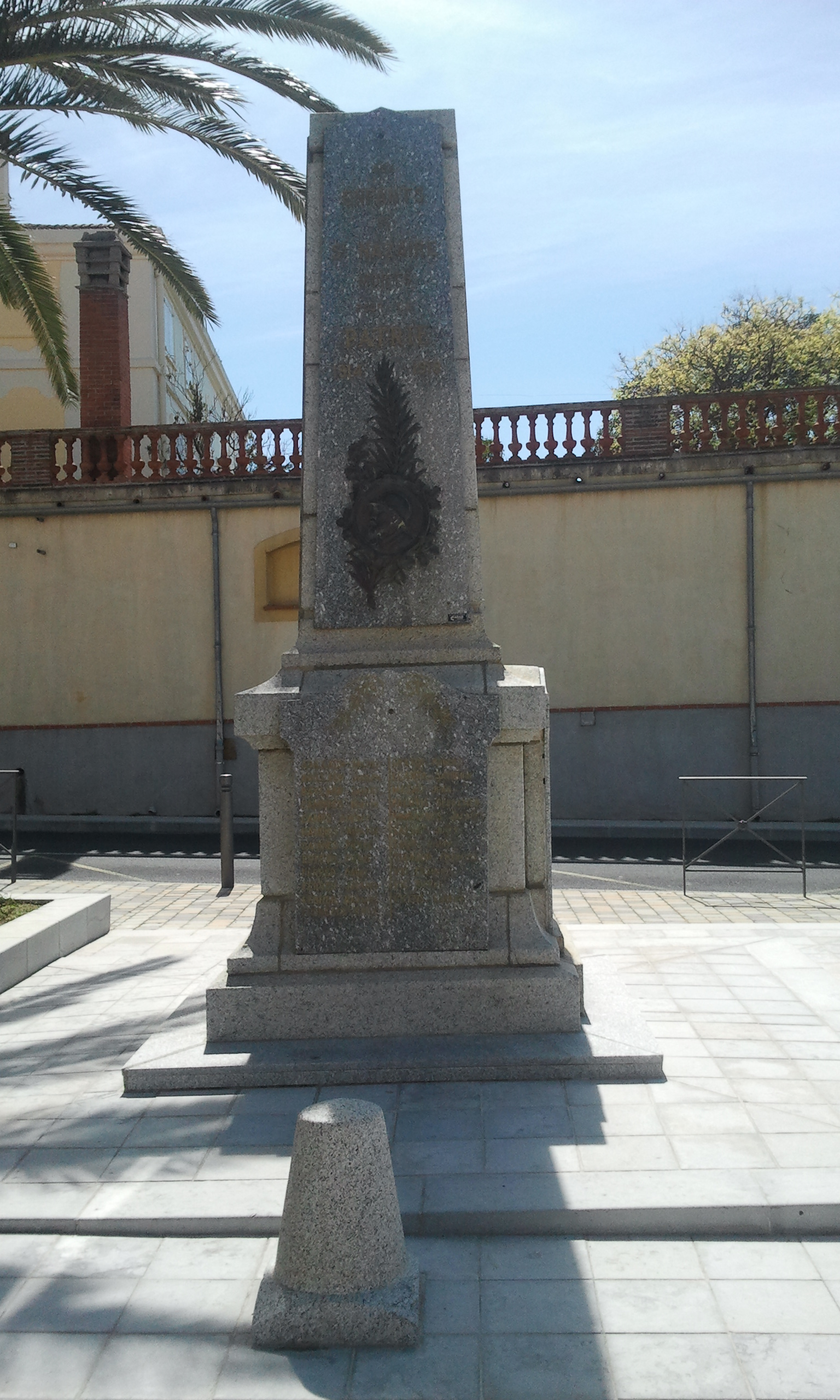 War memorial in Saint-Nazaire